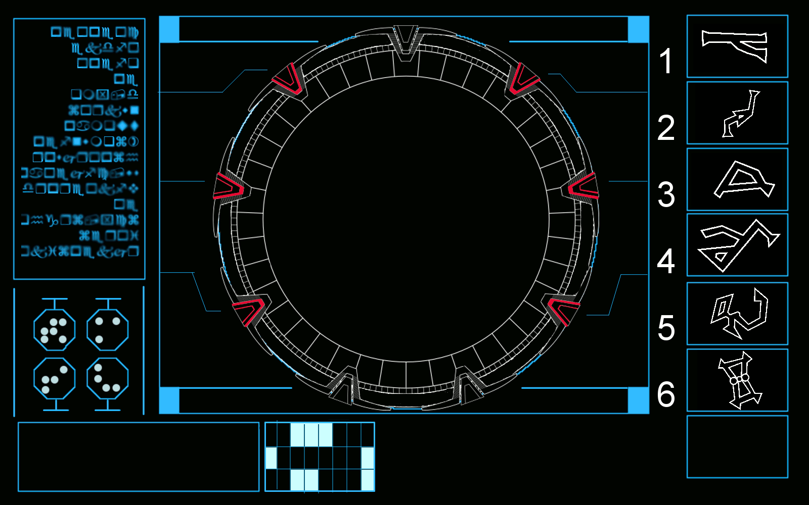 Tau'ri dialing computer's screen with the Chulak address in Stargate